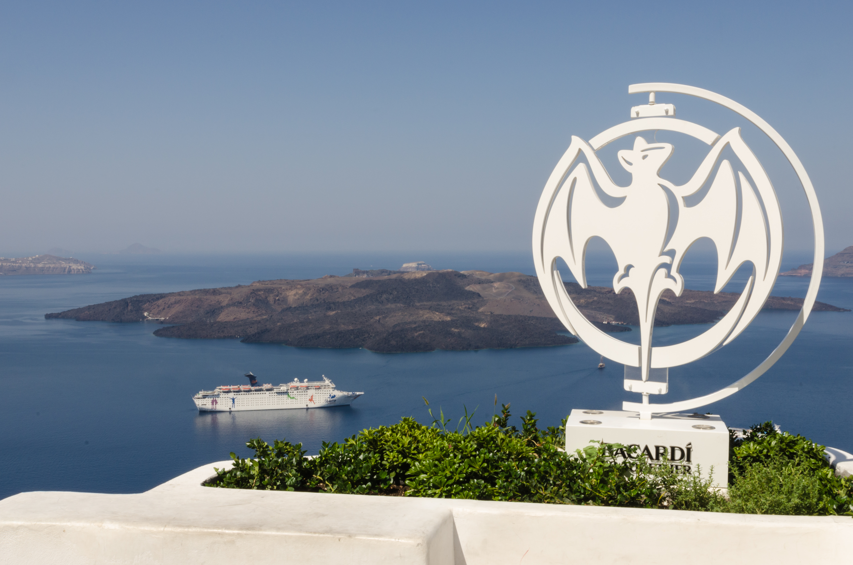 Crater rim alley in Fira with view of the caldera, Santorini, Greece.